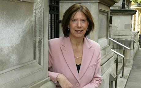 Baroness Jean Coussins, a Crossbench Peer in the UK Parliament, visiting the University of Salford.